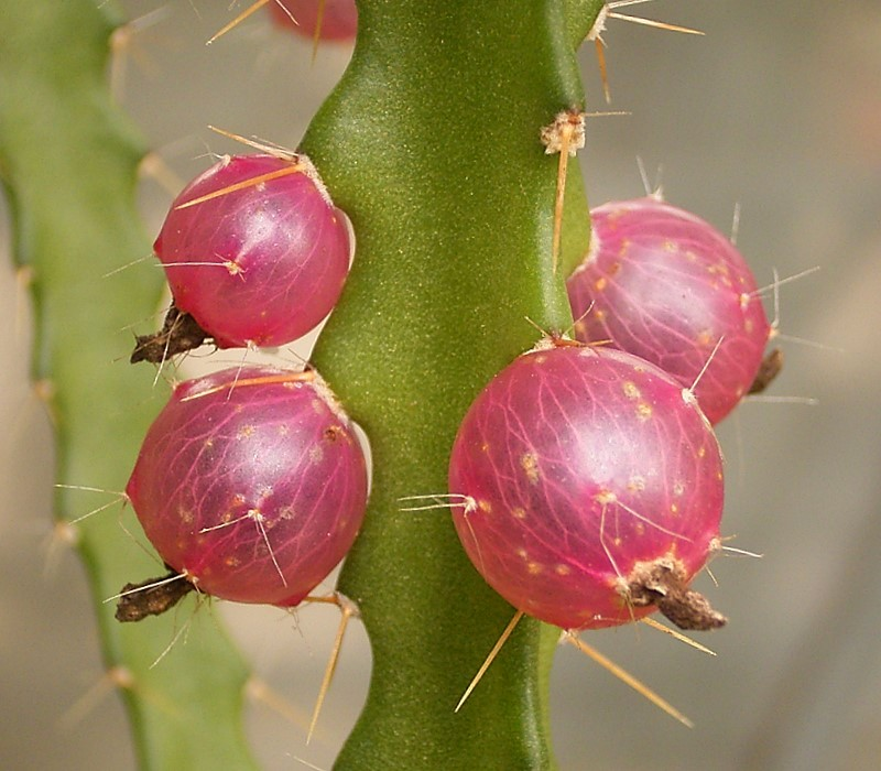 Lepismium ianthothele